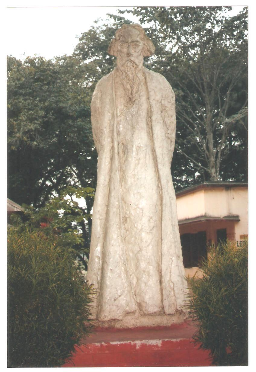 Statue of Rabindranath Tagore by K P Krishnakumar (1959- 1989) at Amar Kutir